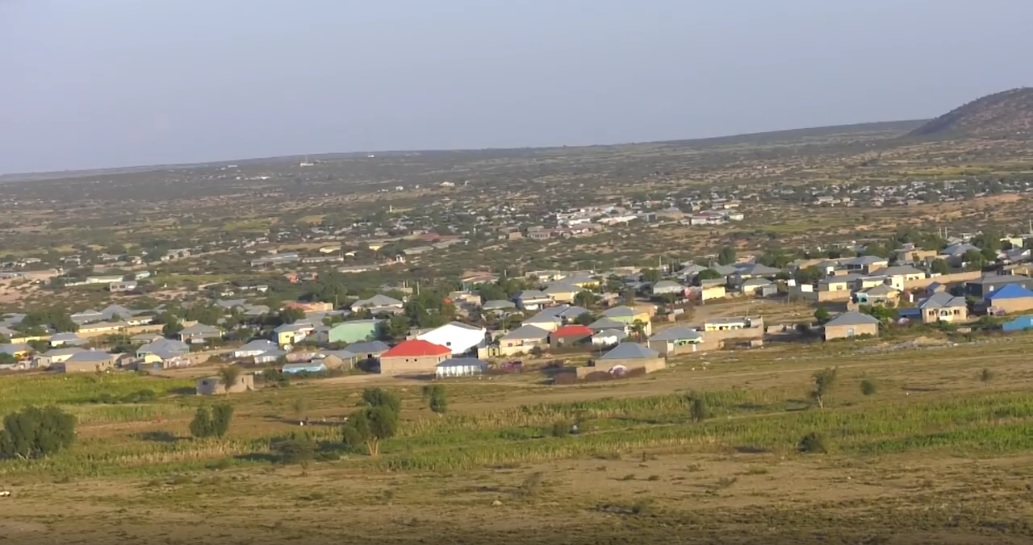 Section of Aw Barre